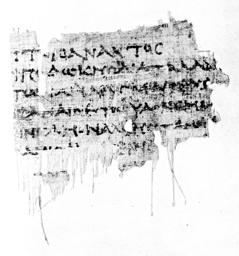 P.Lit.Lond.. 32: a 3rd c. BCE papyrus of the Catalogue of Women (fr. 73.1–7)